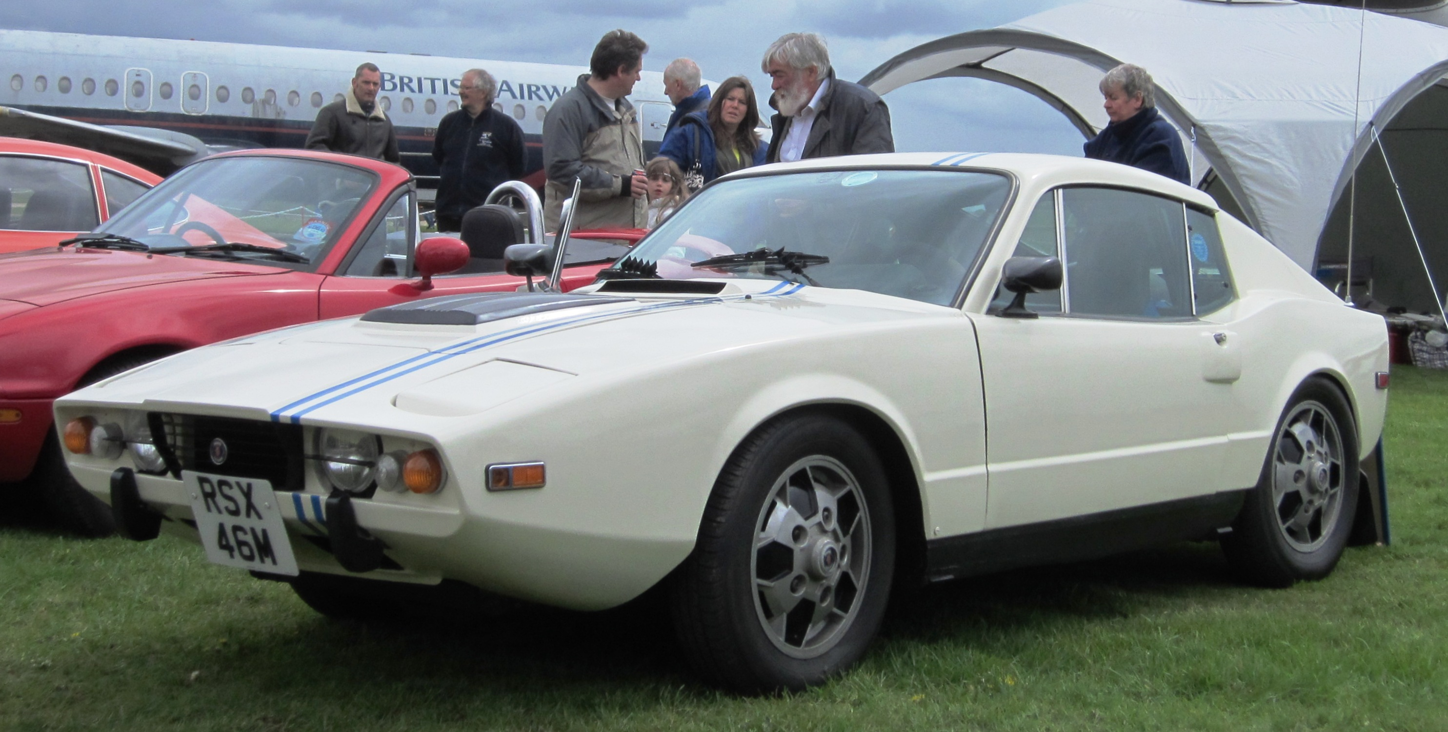 Saab Sonett III at Duxford